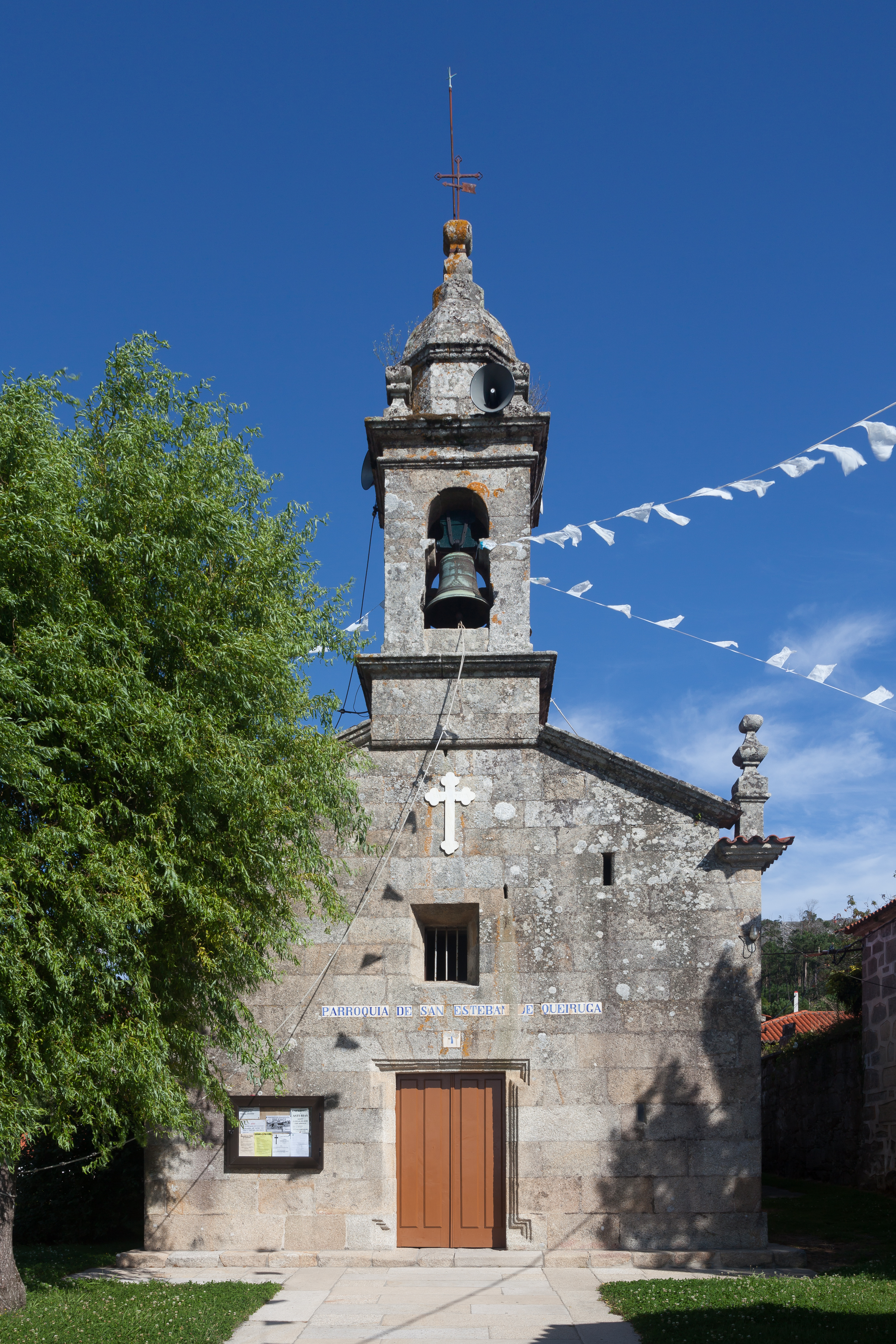 Church of Queiruga, Porto do Son, Galicia (Spain).